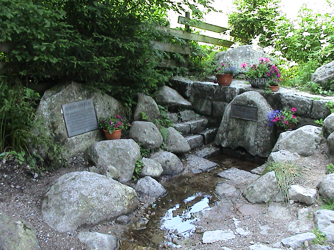 source of [the Breg, larger of two tributaries of] the Danube 2002